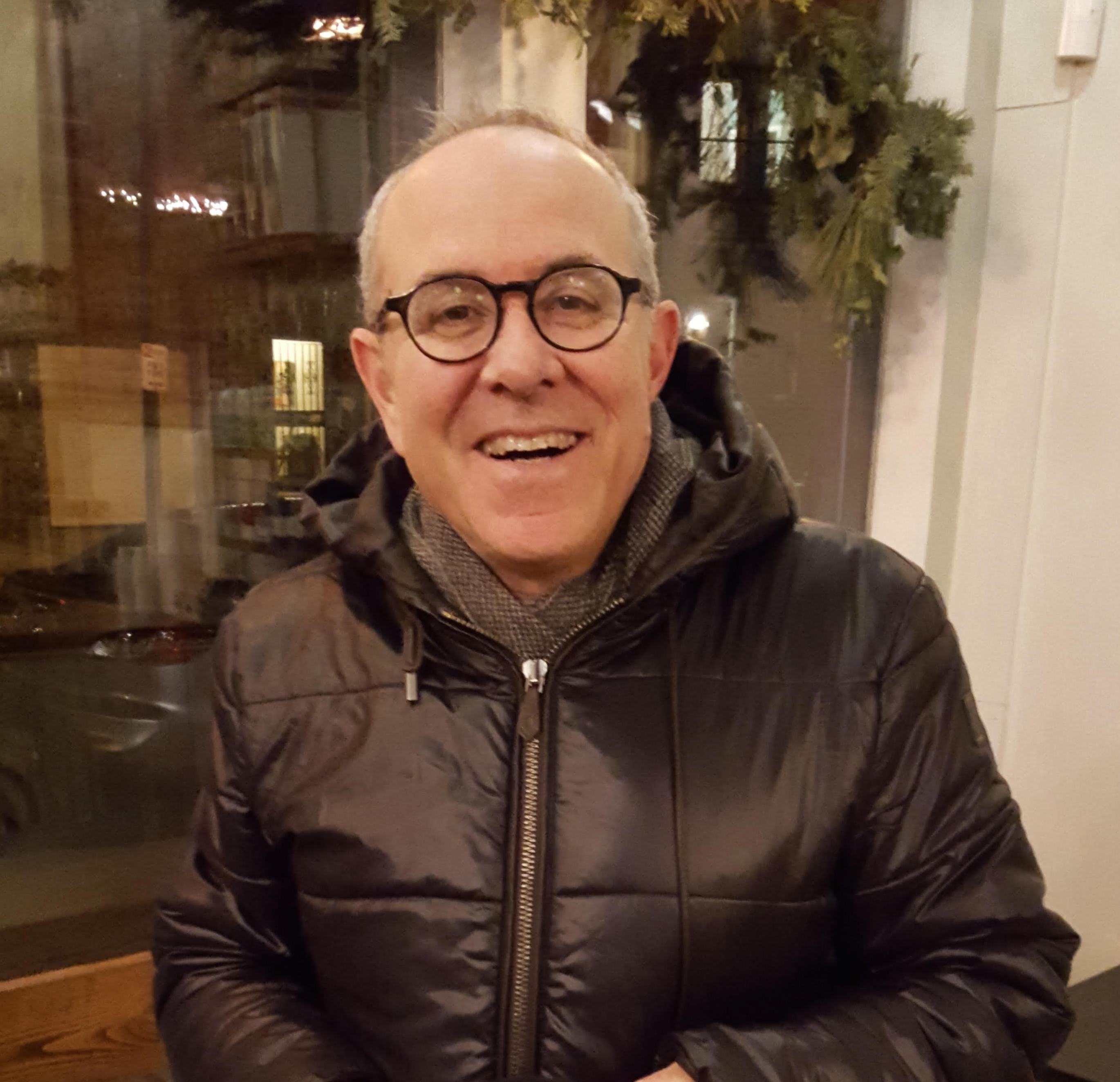 Menachem Lorberbaum at 542 Christian Street, Philadelphia on December 15, 2016. Photo by Morris Levin.